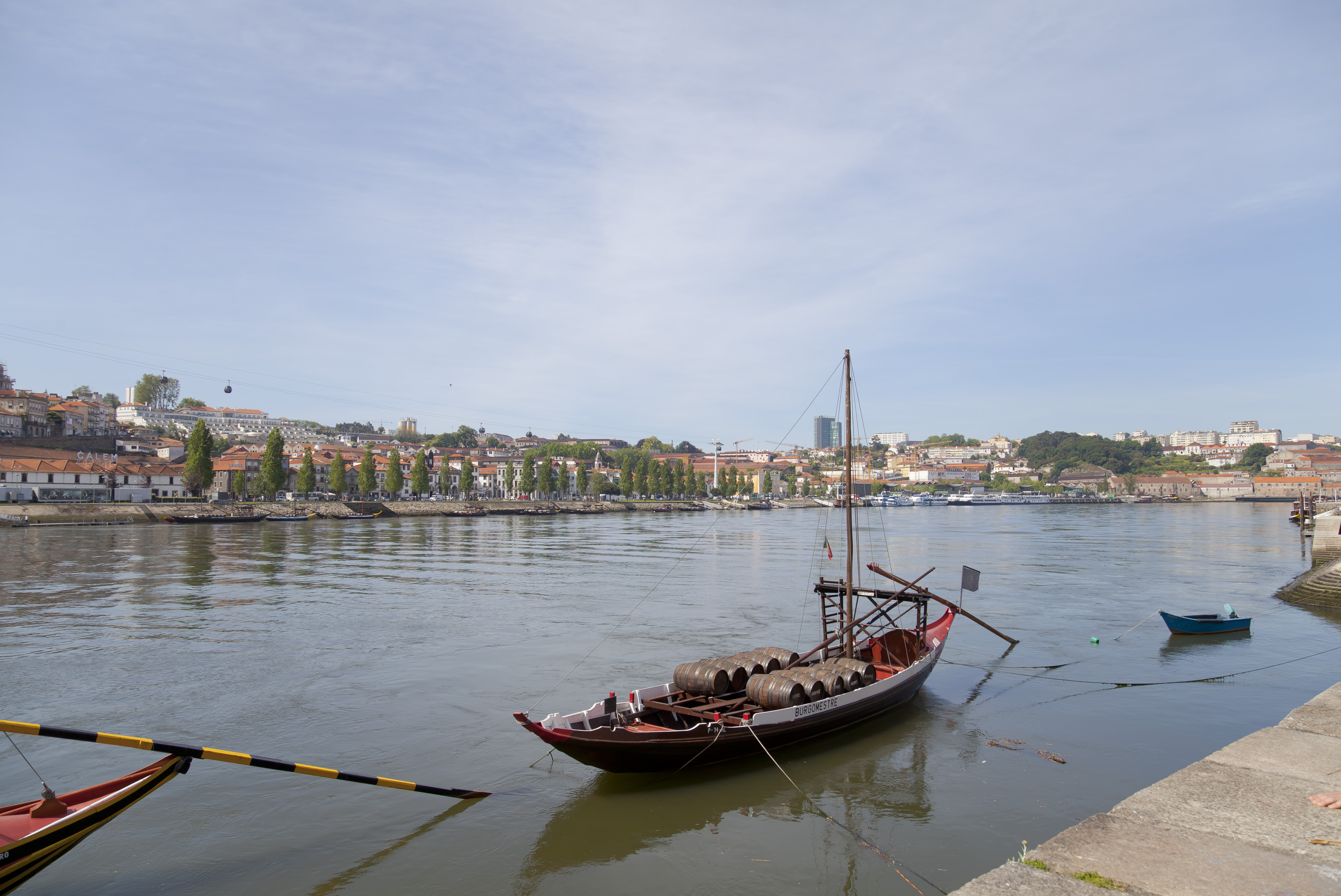 Rabelos in the Duero river, Porto, Portugal